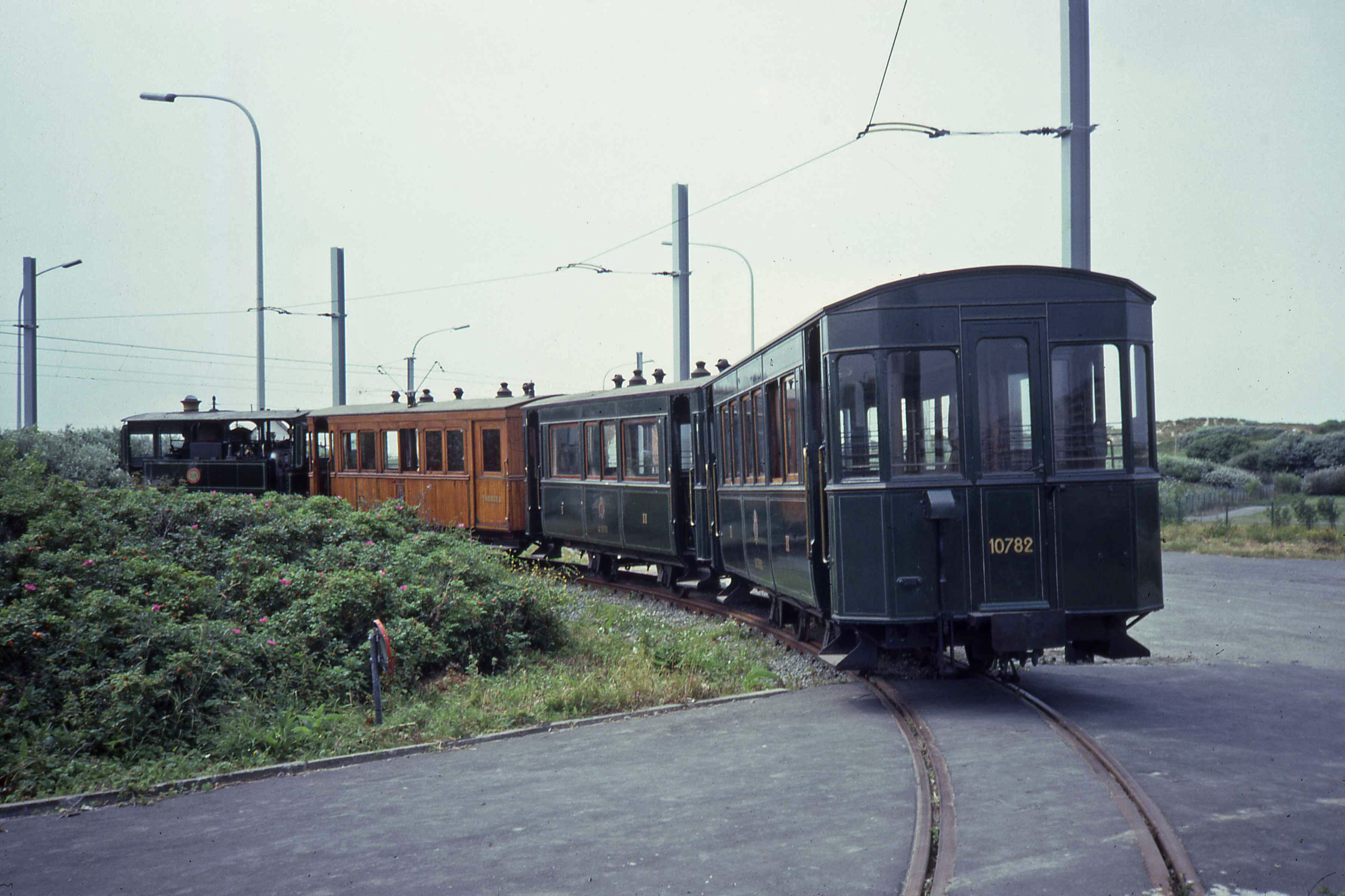 Original steamtrain of the SNCV on the Coastline, a year after during the 100 year festivities off the SNCV. One wooden and two metal cars.